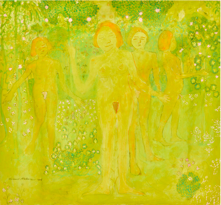 The Secret of Temptation (Malevich, 1908)